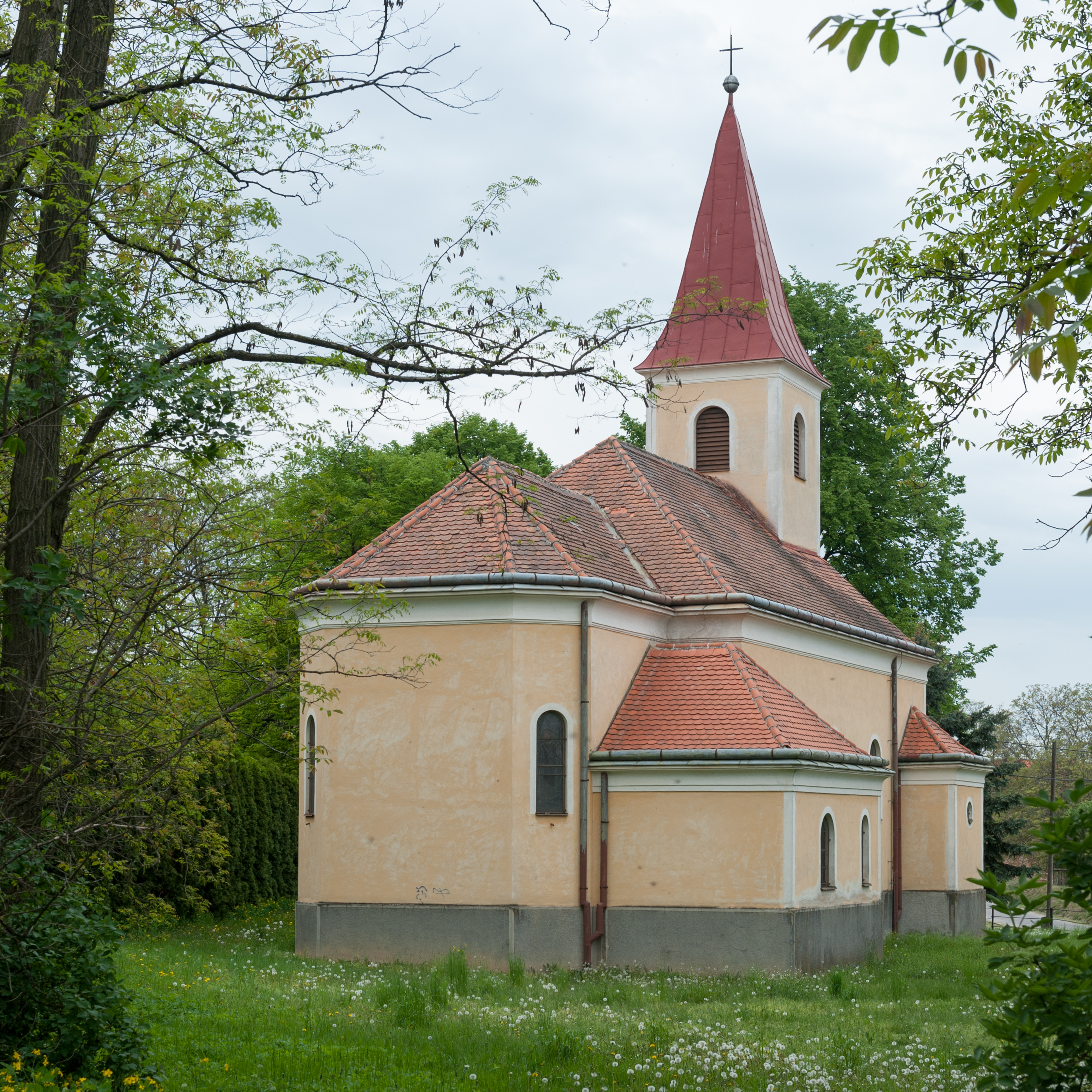 Wikitown Hustopeče: Kyjovice